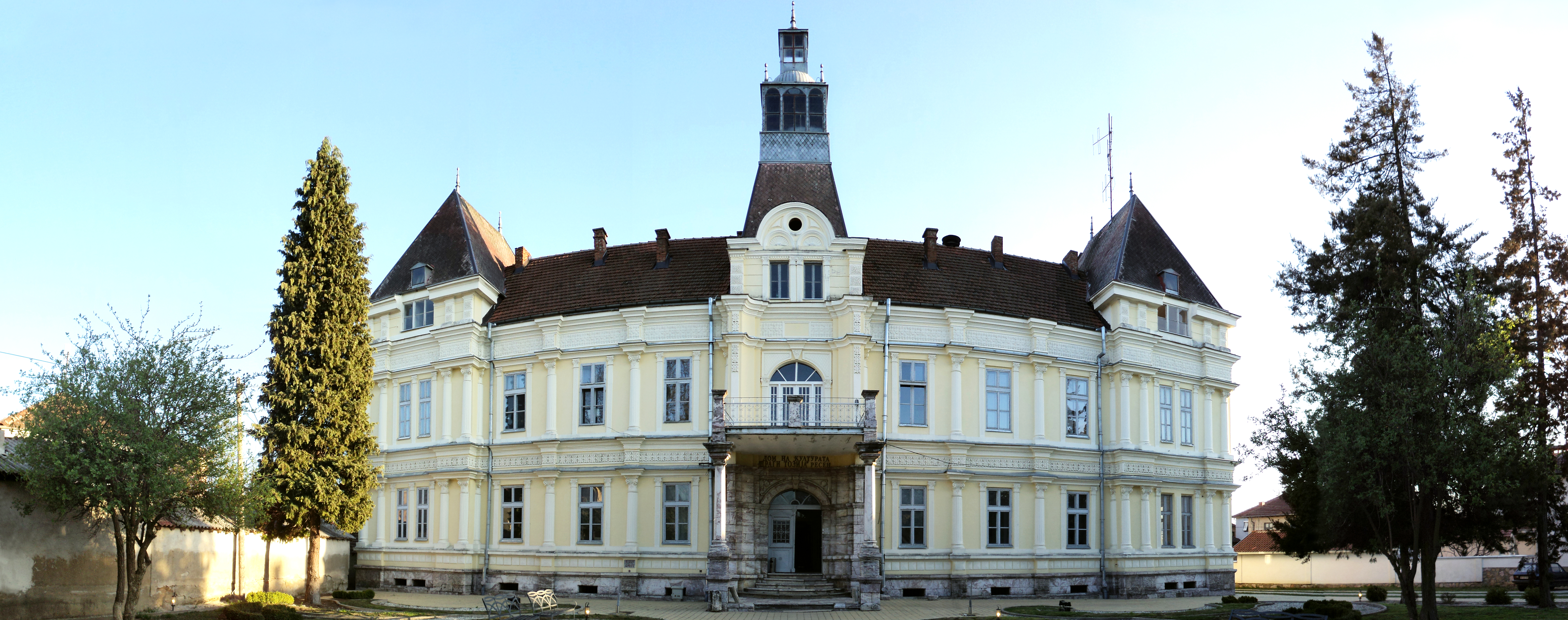 Panorama of Niyazi Bey Palace (Resen, Macedonia)